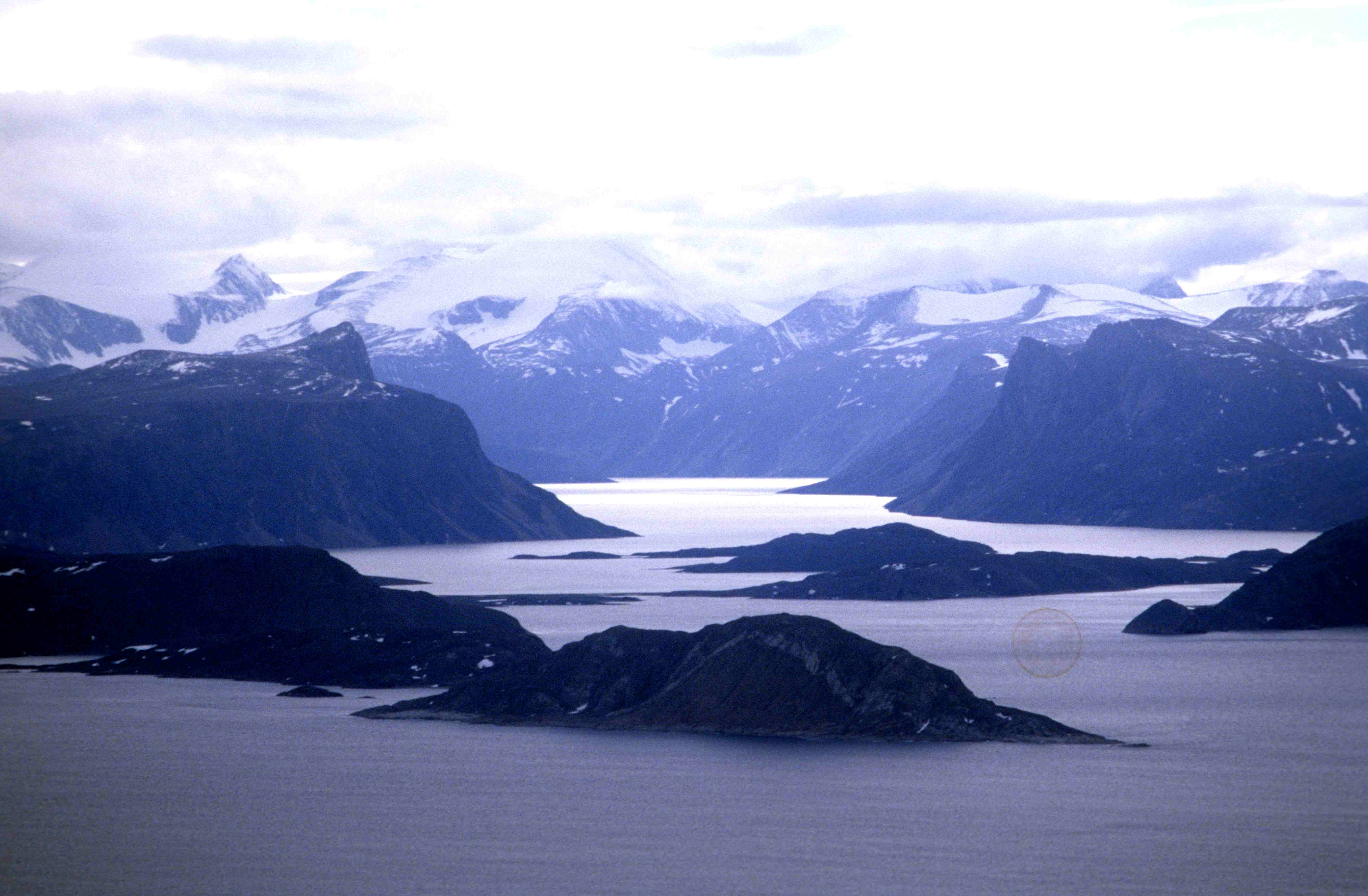 Northern end of Auyuittuq National Park (Home Bay, Davis Strait)